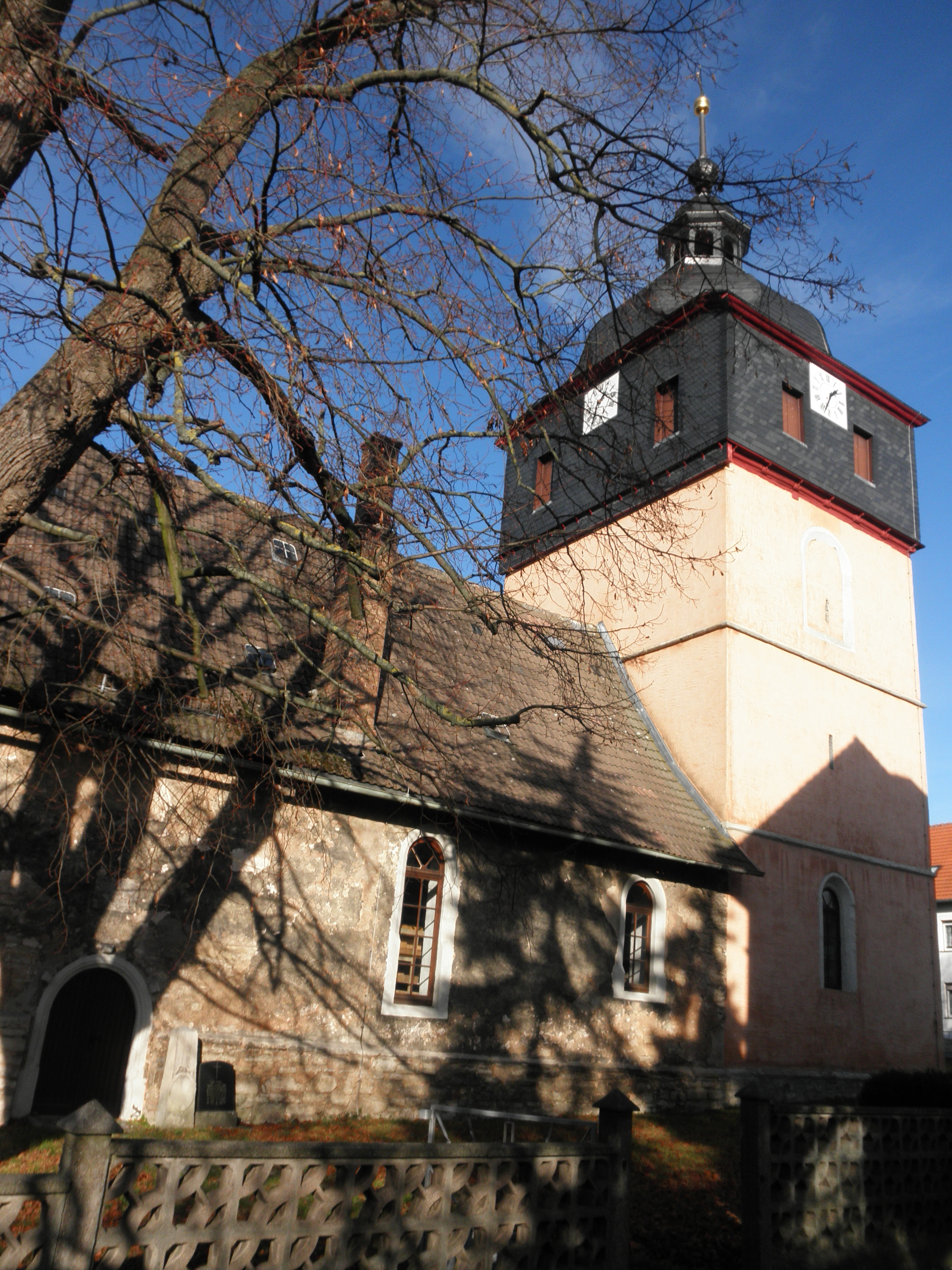 Church in Keula (Helbedündorf) in Thuringia